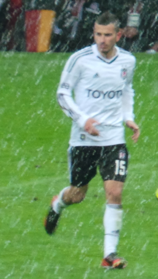 Oğuzhan BJK formasıyla